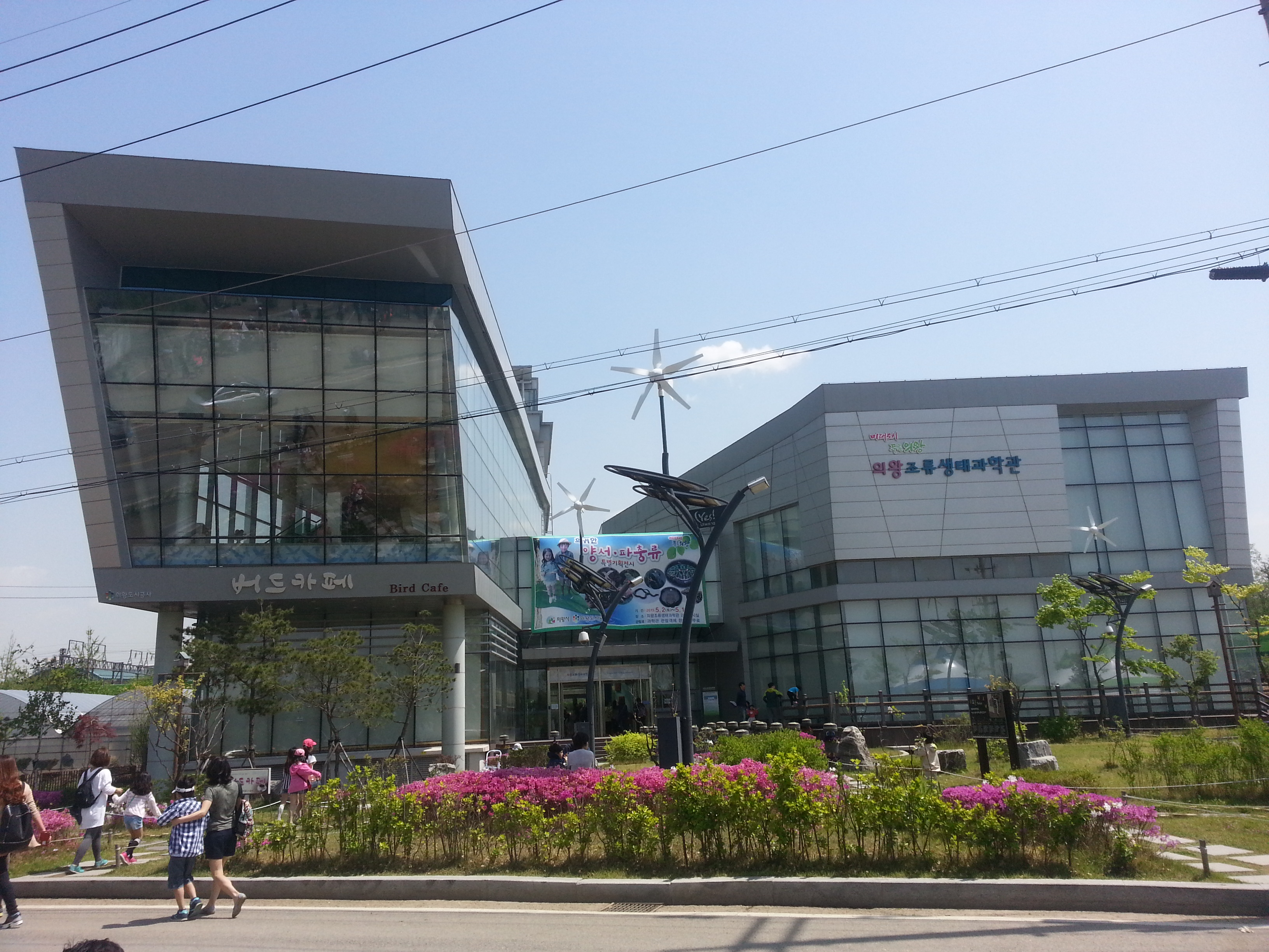 Uiwang Bird Ecology Museum.